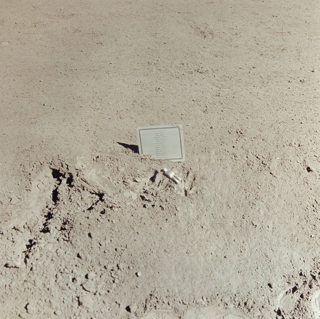 On their final EVA, Apollo 15 astronauts created a small memorial to those astronauts known to have lost their lives.